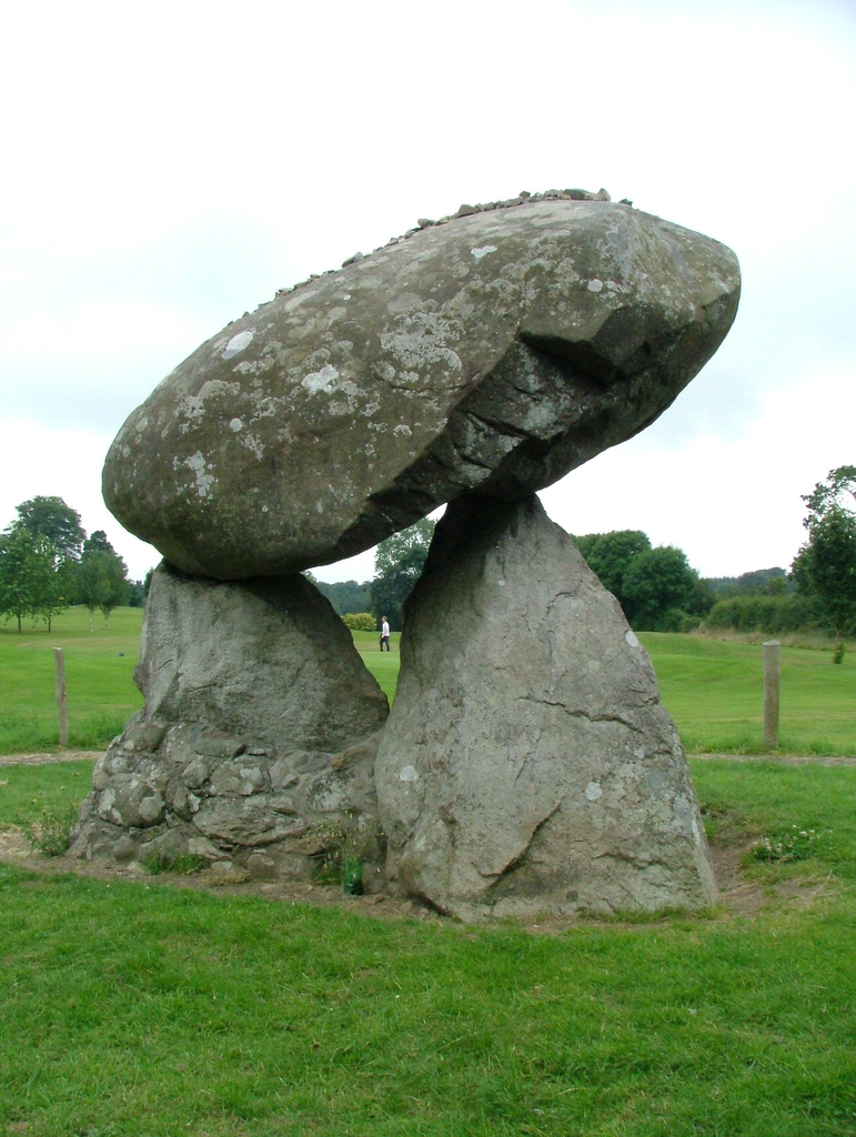 Proleek Dolmen (Portal Tomb), Cooley Peninsula, Ireland.